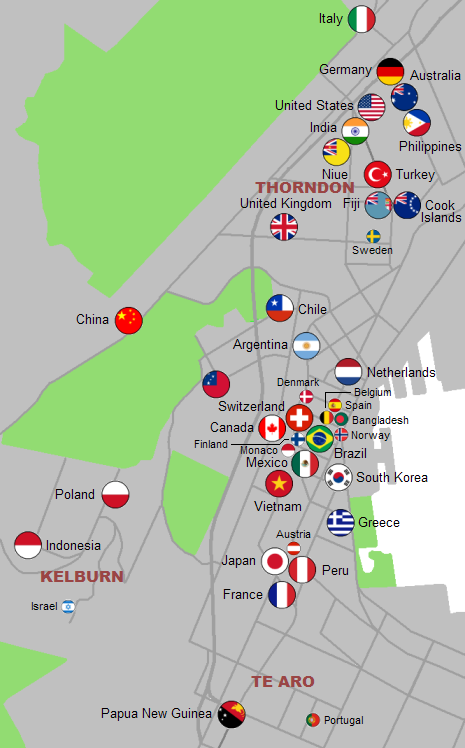 map locating embassies in central Wellington, New Zealand.